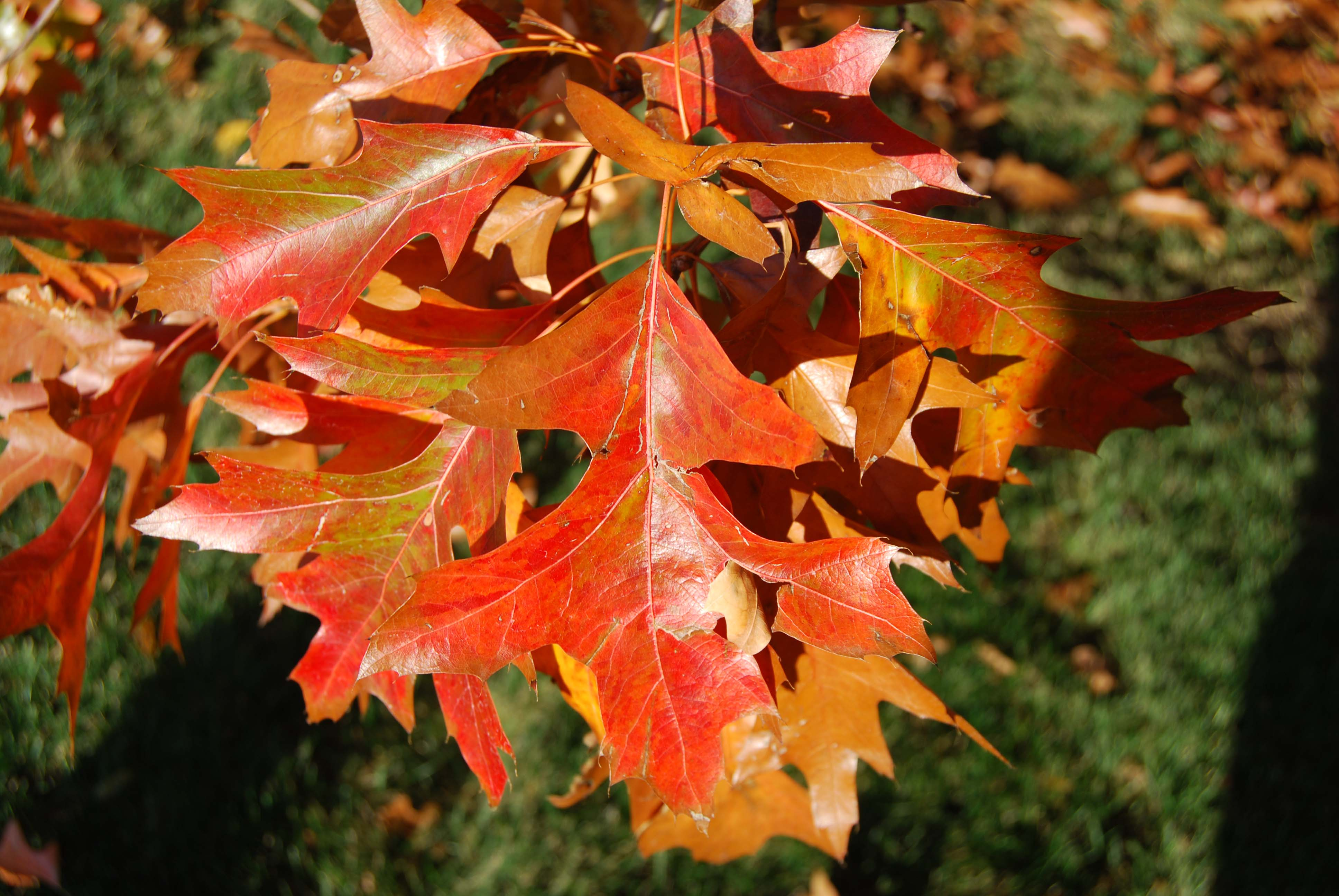 Picture of Pin Oak (Quercus palustris) leaves turning color